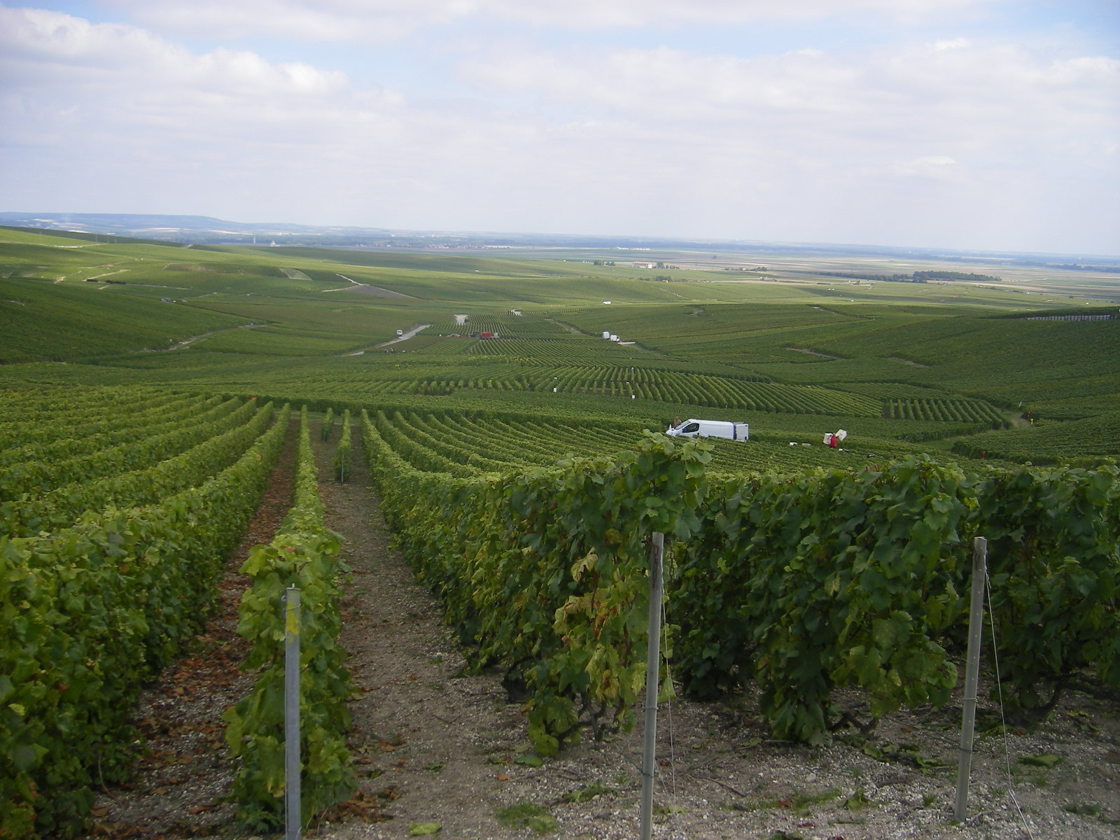 Vineyards of Champagne at Cramant